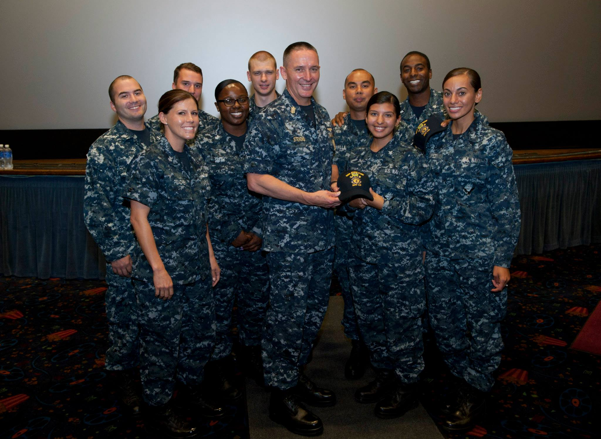 150902-N-OT964-204 SAN DIEGO (Sept. 2, 2015) Master Chief Petty Officer of the Navy (MCPON) Mike Stevens takes a photo with Sailors after an all hands call as part of his visit to Naval Base San Diego. Stevens is in the area as part of his two-week visit to various commands in the Navy's Southwest Region. (U.S. Navy photo by Mass Communication Specialist 1st Class Martin L. Carey/Released).